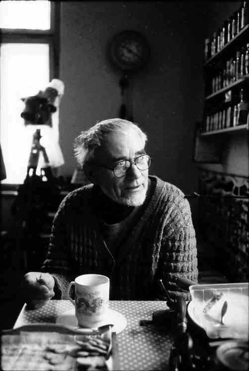 Václav Hübner (1922-2000) was Czech amateur astronomer.